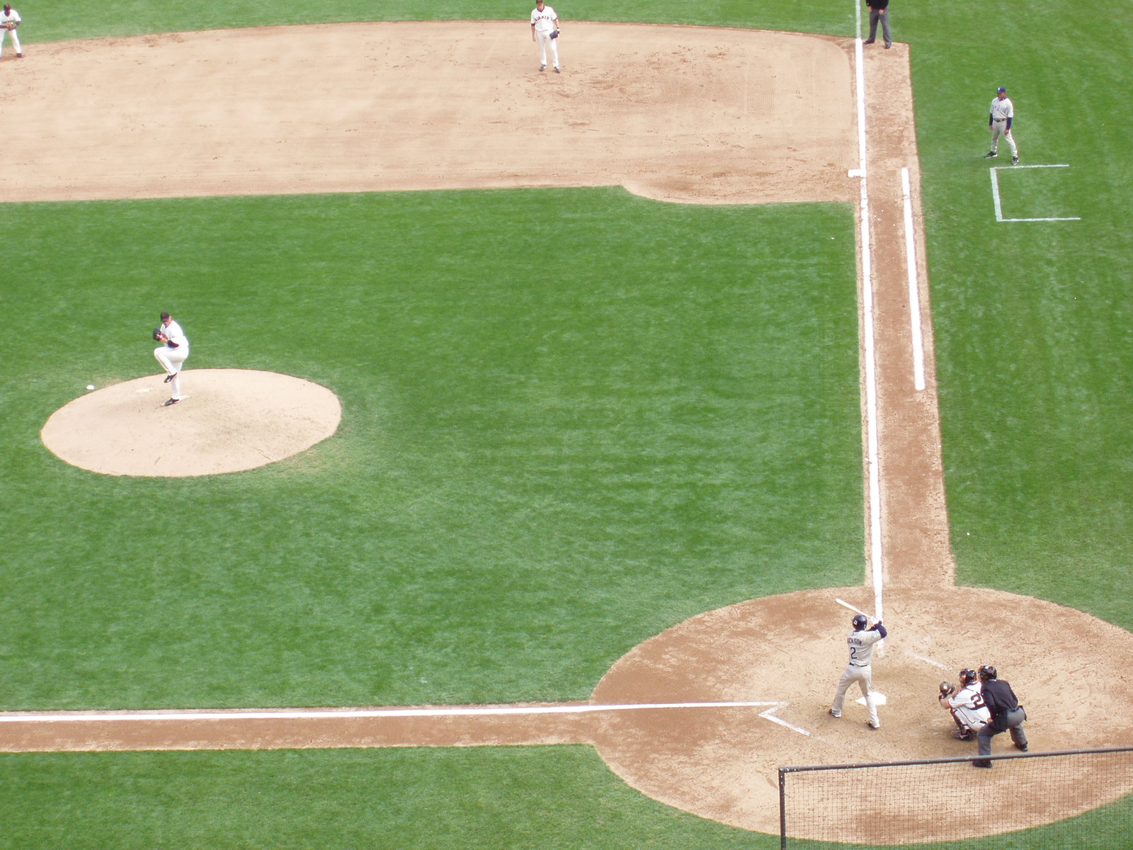 A typical view of a typical professional major league baseball game from the stadium. Addendum: This is a San Francisco Giants home game, apparently at AT&T Park, probably from 2005 as it was uploaded in January 2006. The batter wears number 2, and is probably Damian Jackson of the San Diego Padres. 24.136.204.29 11:08, 1 November 2013 (UTC)